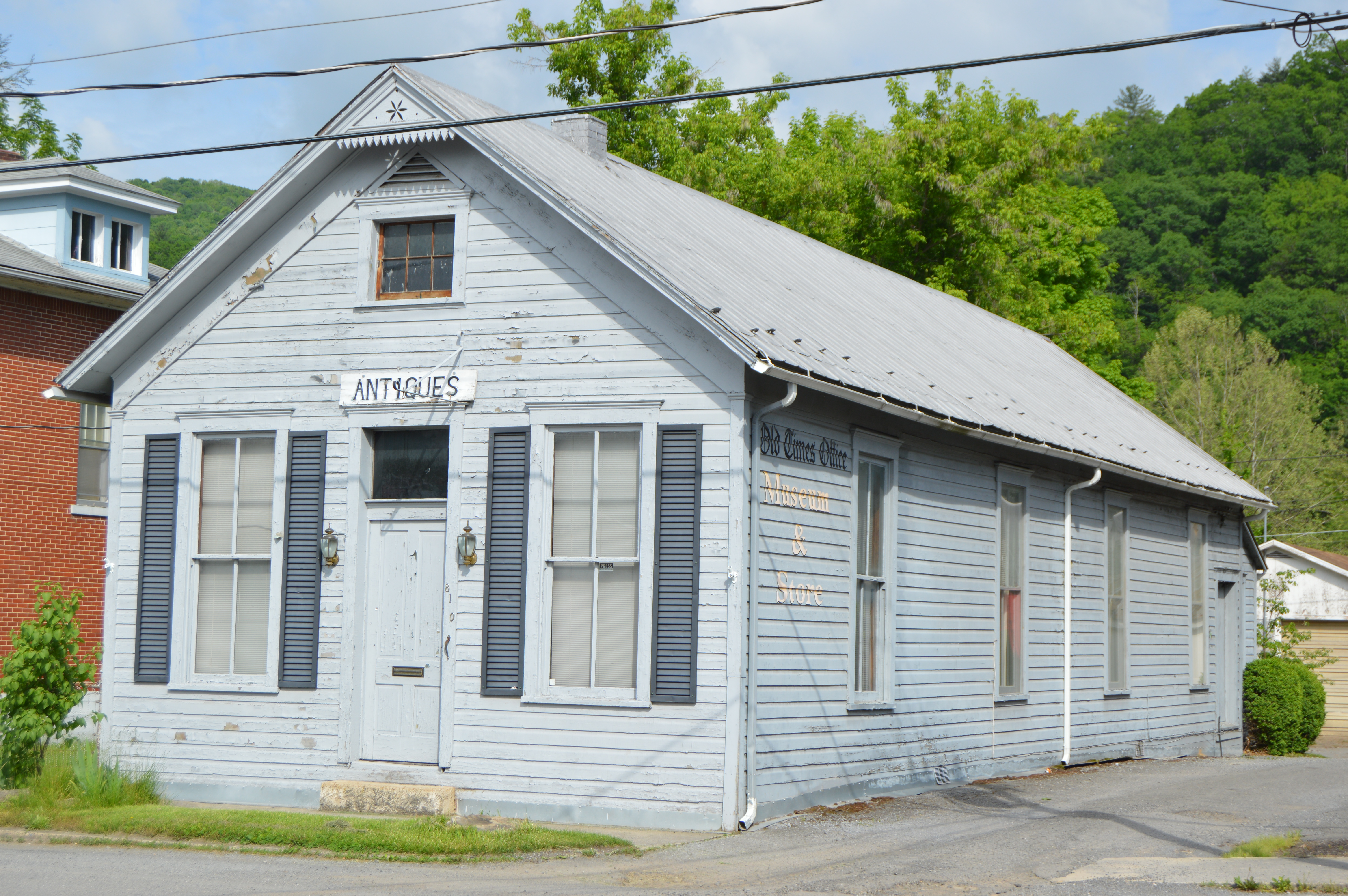 Front and northeastern side of the former print shop for the Pocahontas Times (now an antiques shop and museum), located at 810 Second Avenue in Marlinton, West Virginia, United States. Built in 1900, it is listed on the National Register of Historic Places.